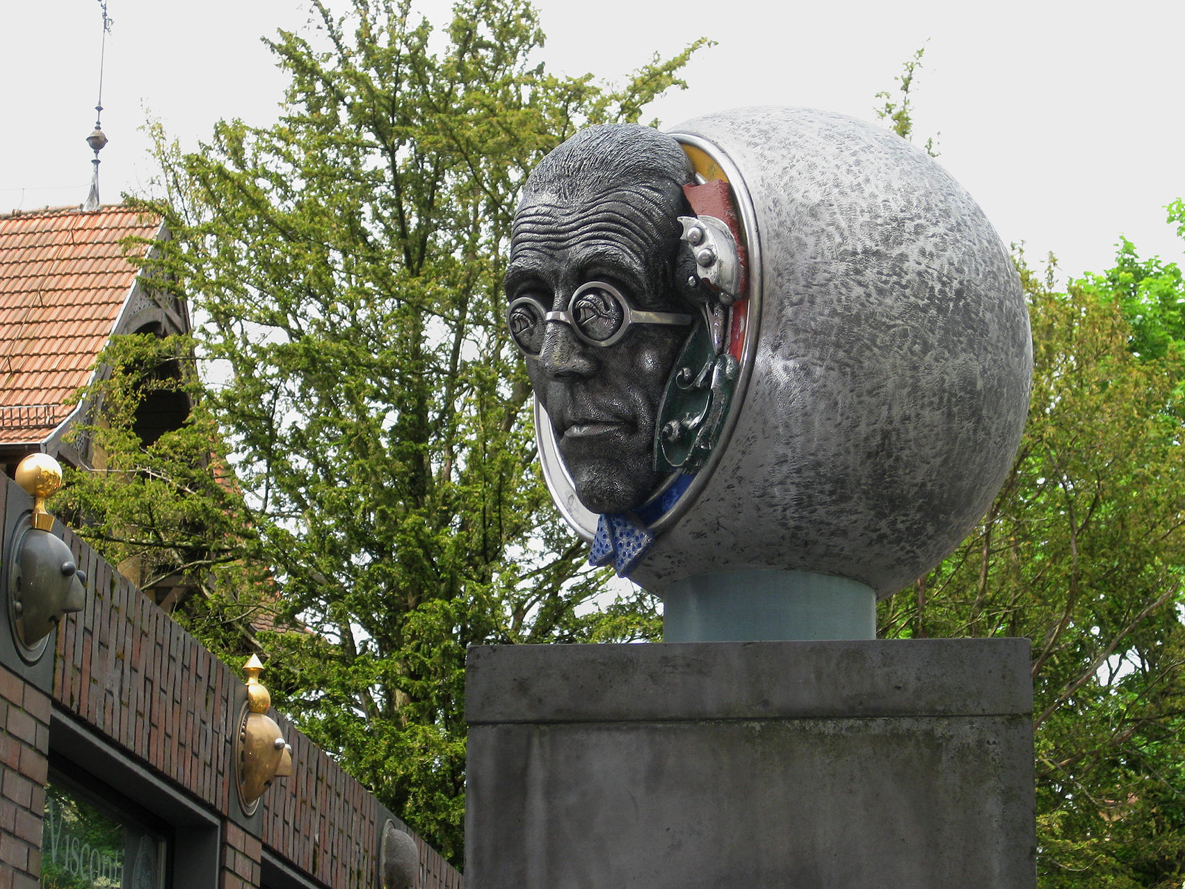 Sculptures in Bietigheim, Germany, Baden-Wuerttemberg, - Juergen Goertz (artist), Prof. Jo Frowein and Dieter Schaeffer (architects), “Gesamtkunstwerk” Villa Visconti, 2001 – 2003, Le Corbusier as a head figure in a spheric abode